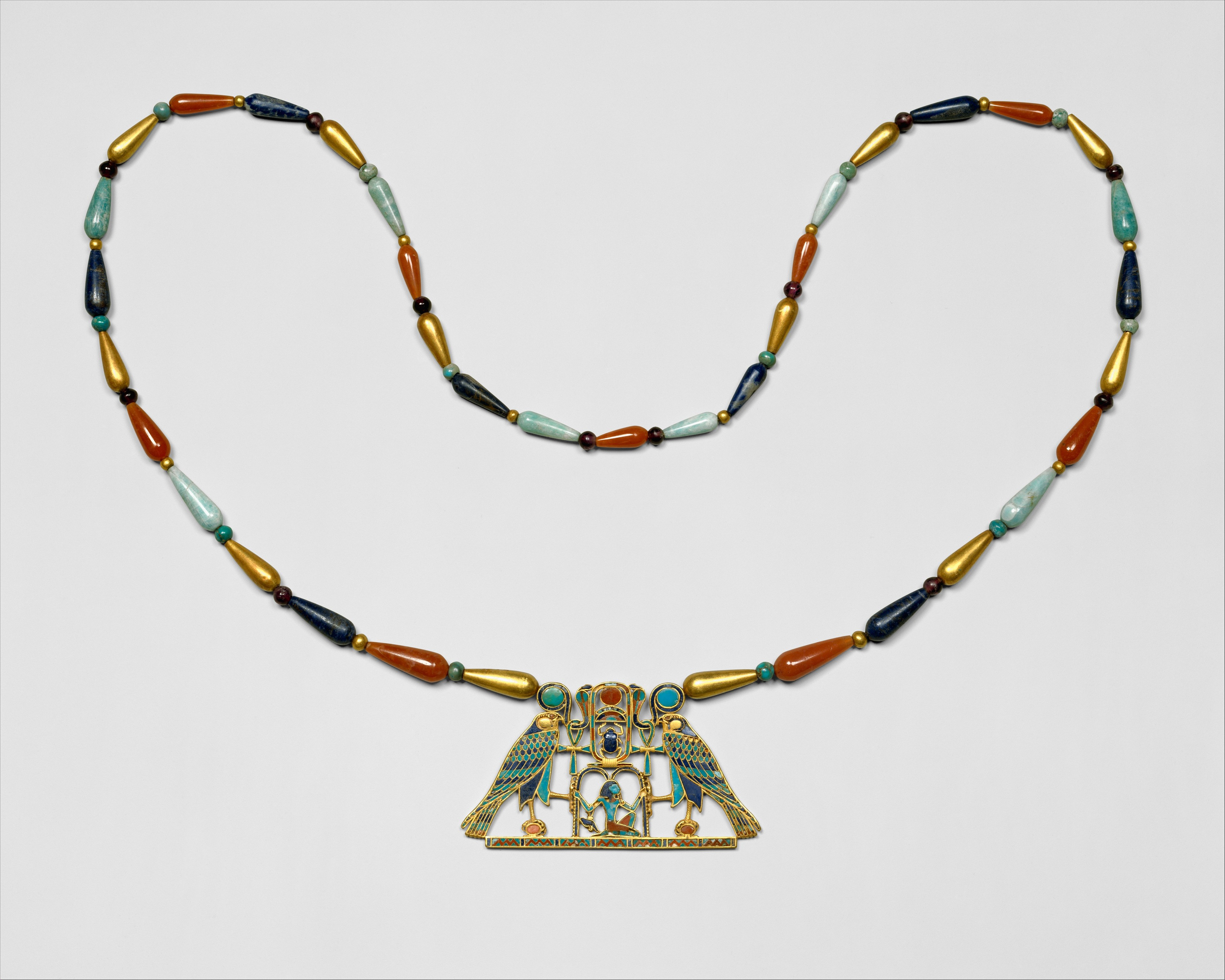 Necklace, pectoral, Sithathoryunet, Senwosret II